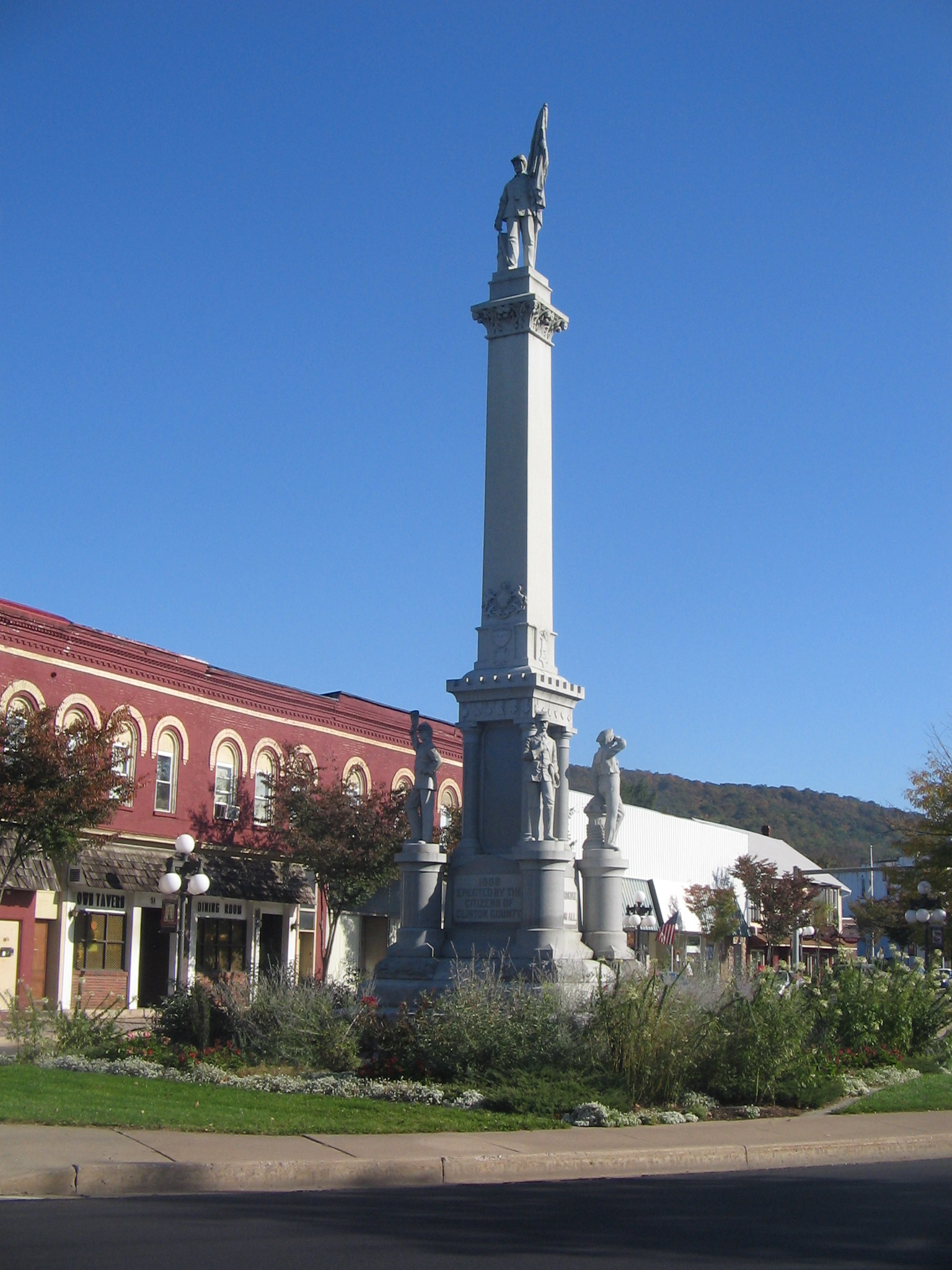 Civil War Monument in Lock Haven, Clinton County, Pennsylvania, USA (dated 1908, so public domain in the United States)